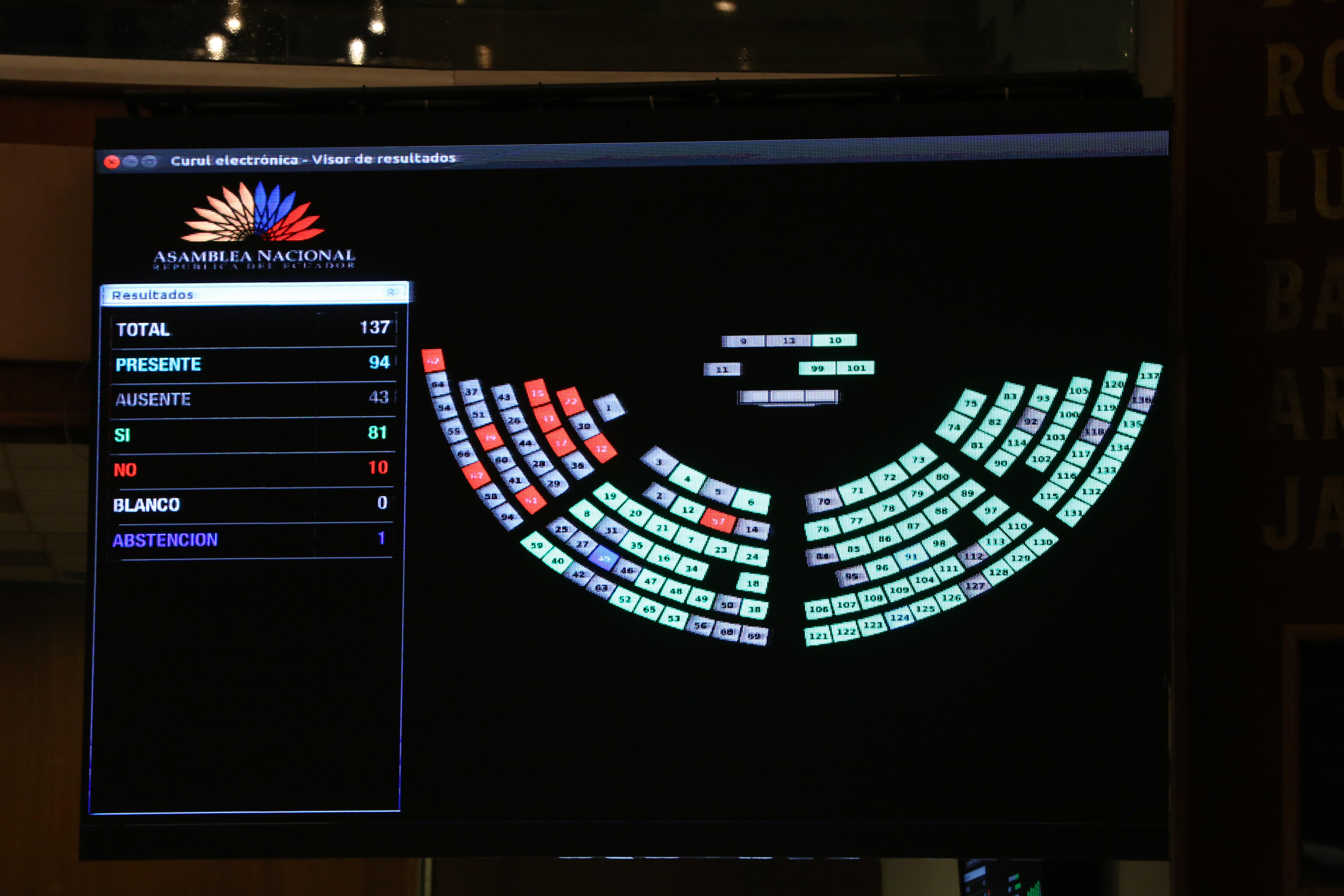 REINSTALACIÓN DE LA SESIÓN NO. 567 DEL PLENO DE LA ASAMBLEA NACIONAL. QUITO, 16 DE ENERO DE 2019 Quito, 16 de enero de 2019. Proyecto de resolución en el cual la Asamblea Nacional del Ecuador, se pronuncie frente a la posesión ilegal y antidemocrática del Presidente de la República Bolivariana de Venezuela, Nicolás Maduro Moros. A sí vote indicates denouncing Maduro.